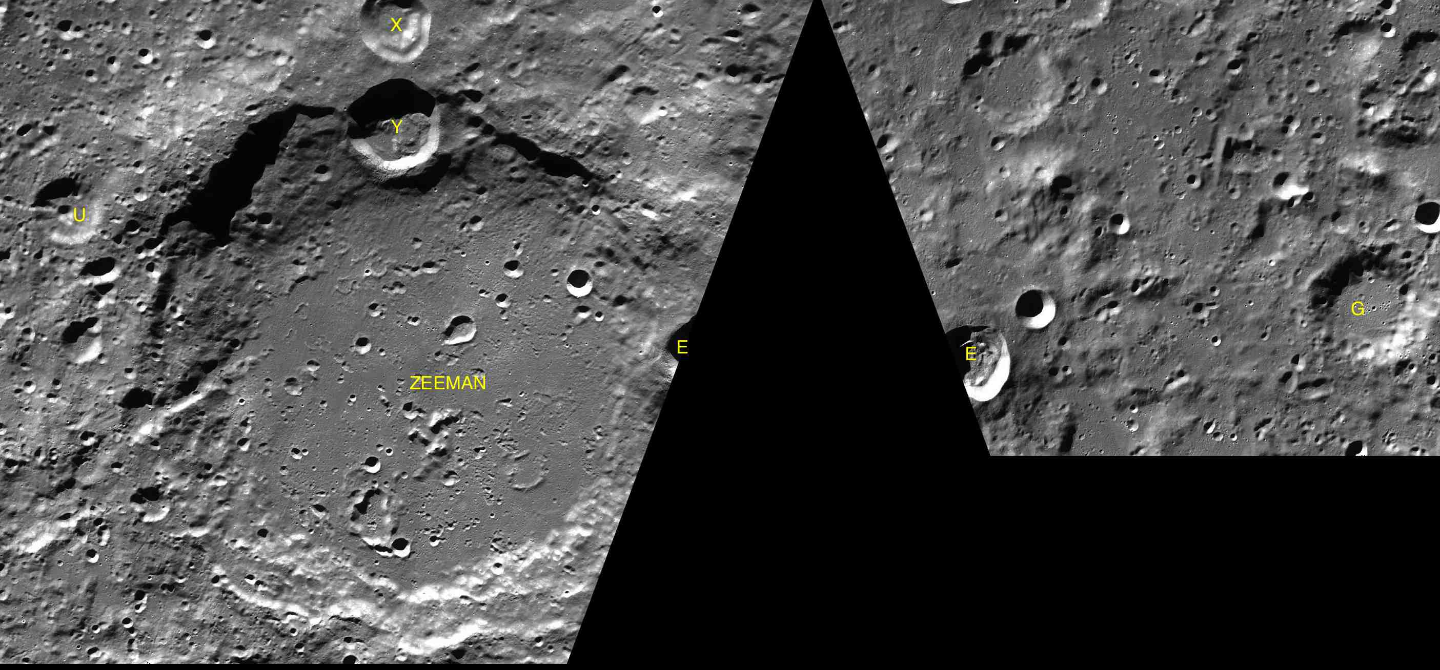 Parts of the charts LAC-142, LAC-143 used for the presentation